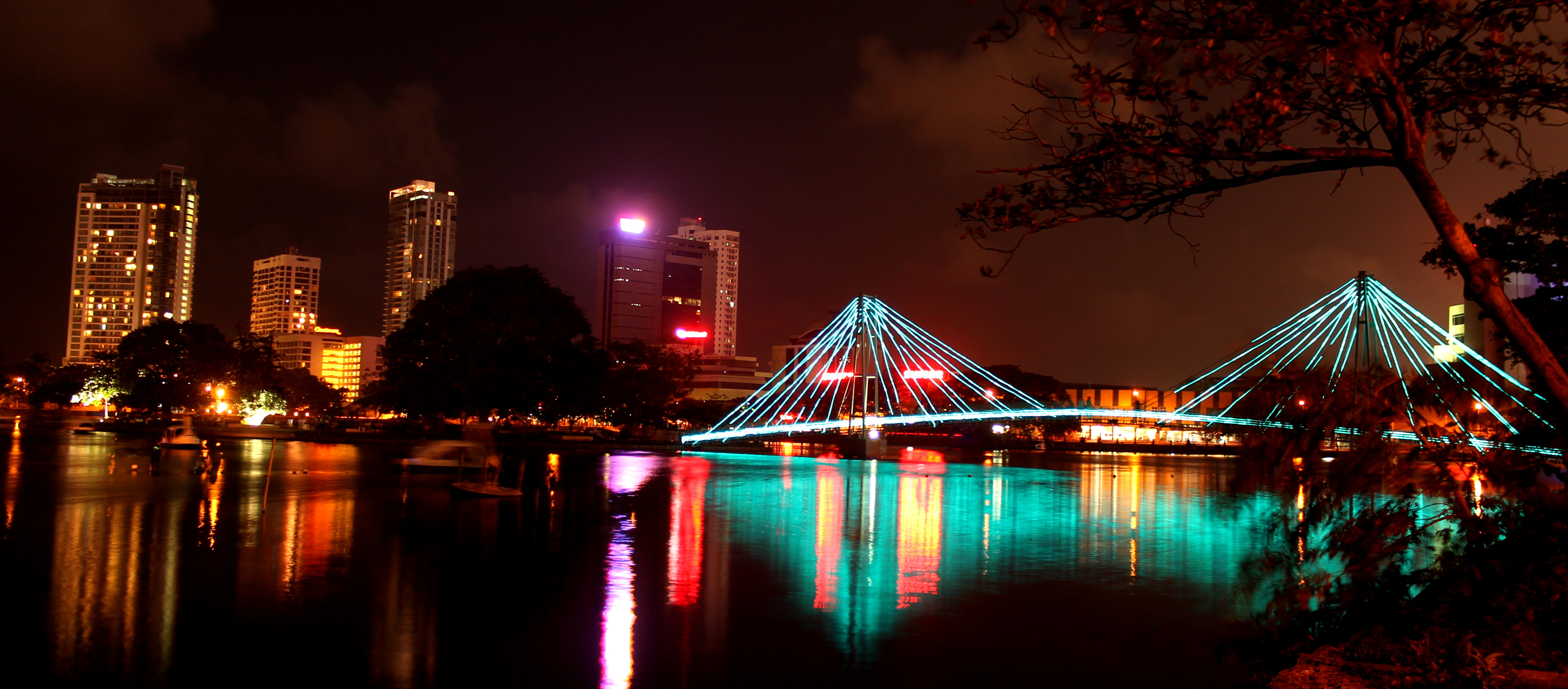 Beauty of beira lake